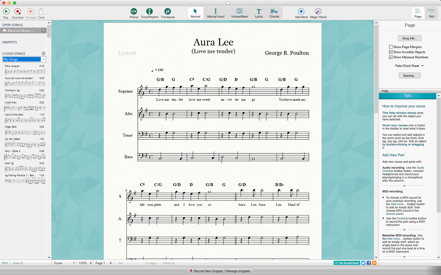 Screenshot from ScoreCloud 4